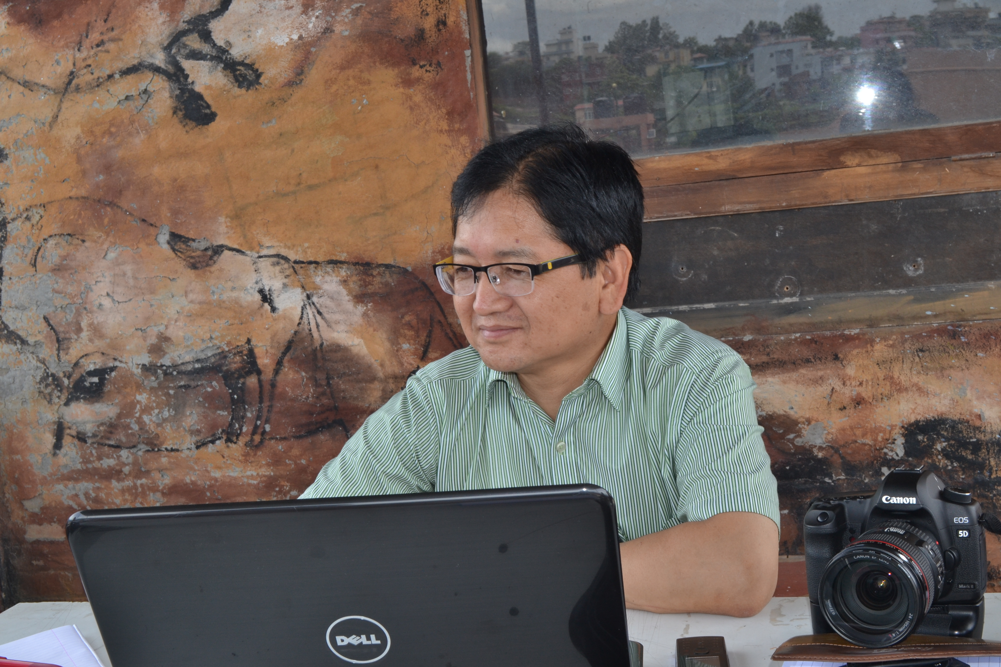 Photograpy academician Sarad Rai at college